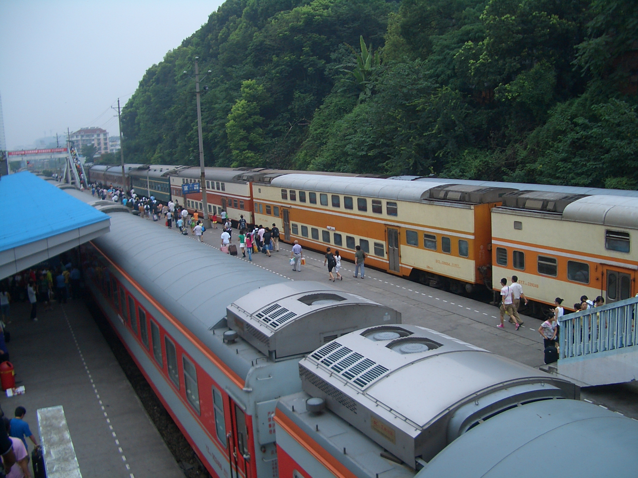 The arrival of a daily train from Hankou to the Yichang Train Station. Note bilevel cars (white-and-orange) used for "hard seat" class.